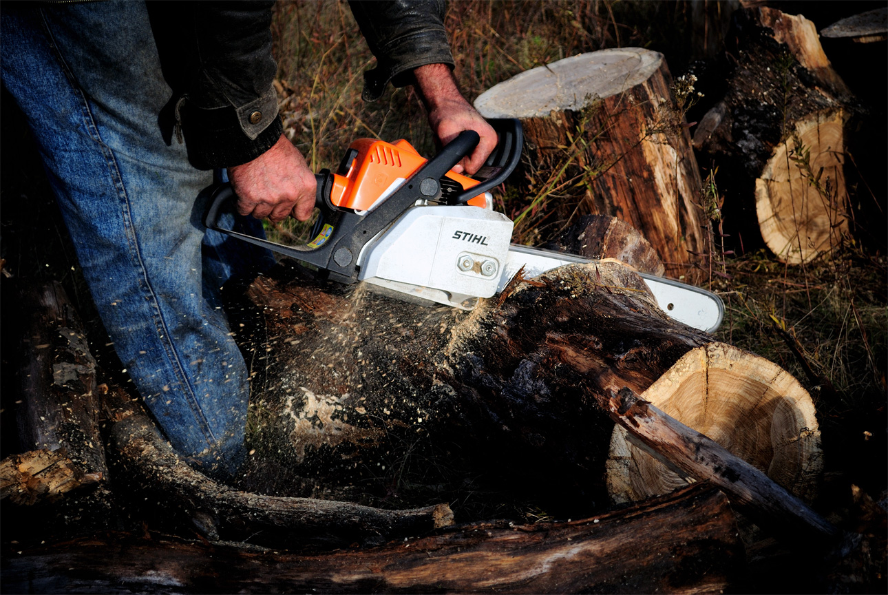 Chainsaw in work